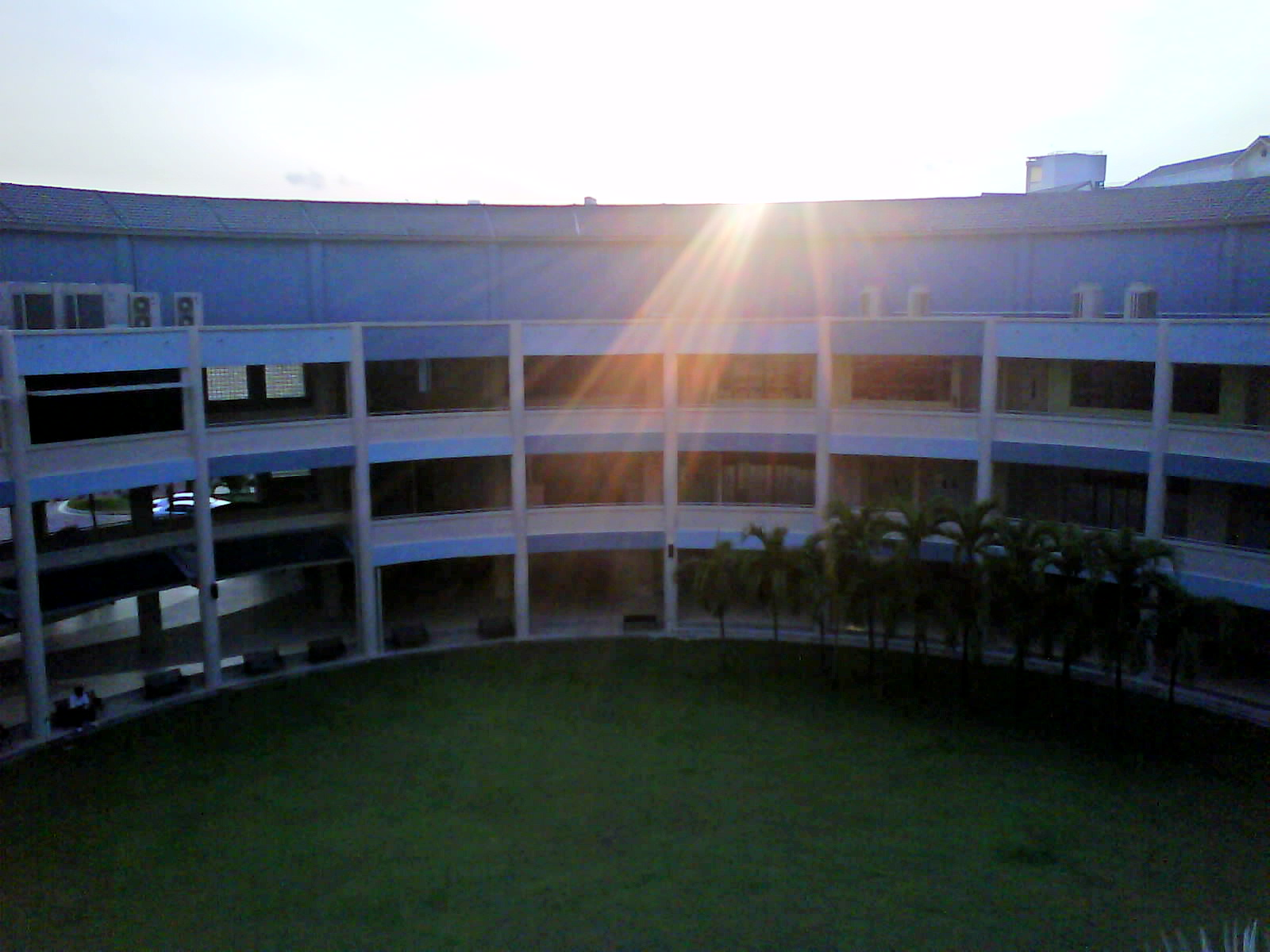 The Zhengxin Block (正心楼) of Dunman High School in Singapore.